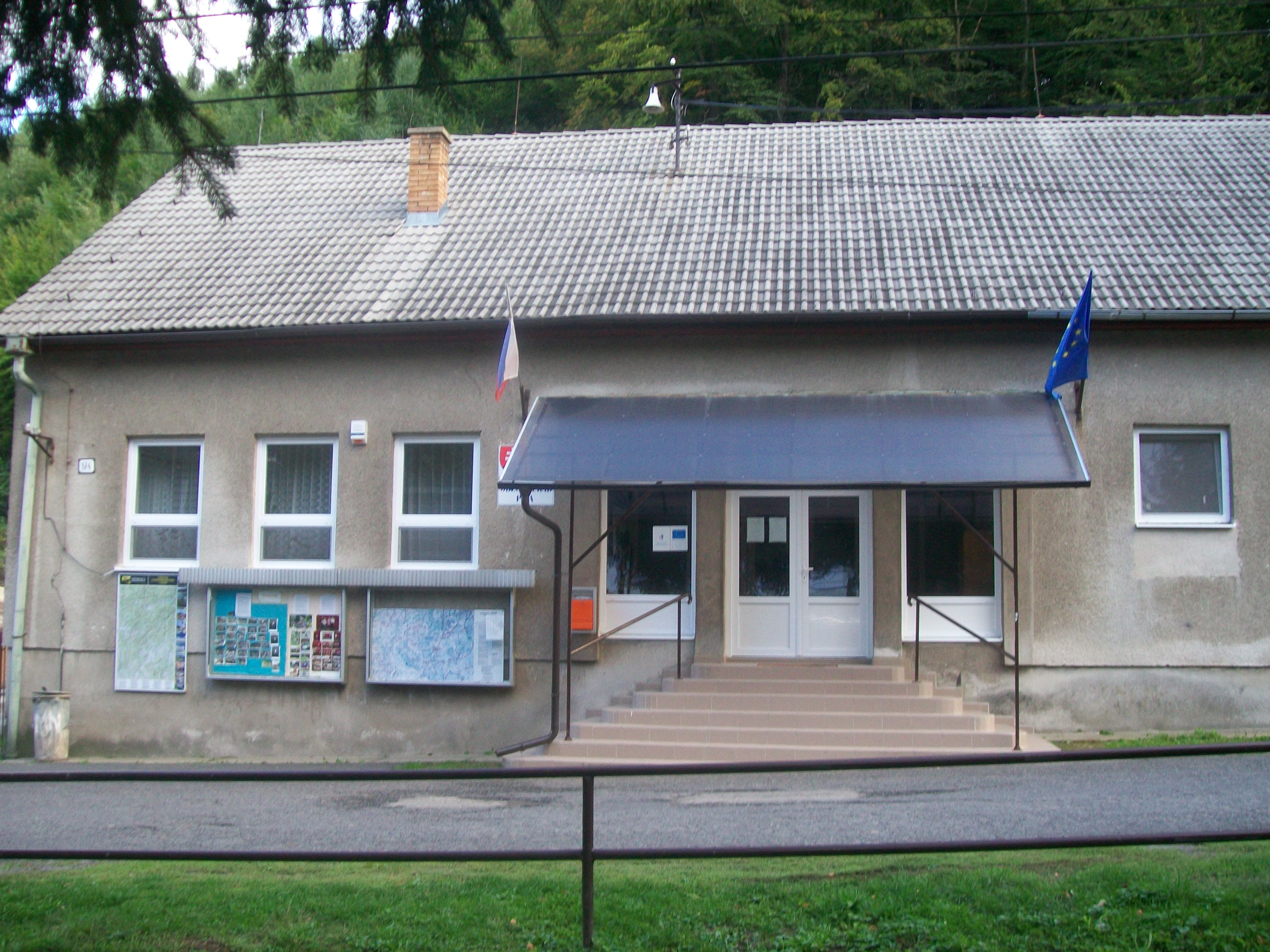 Municipal Office in the village PílaSlovenčina: Obecný úrad v Píle